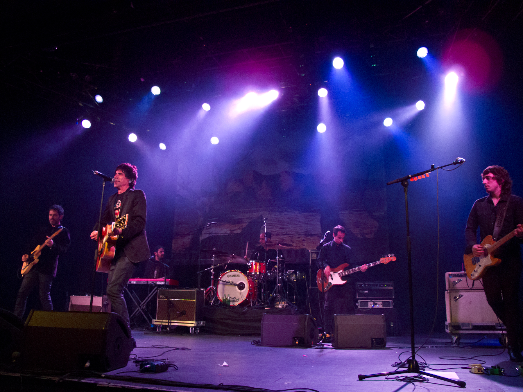 Guasones live in Madrid in 2012.